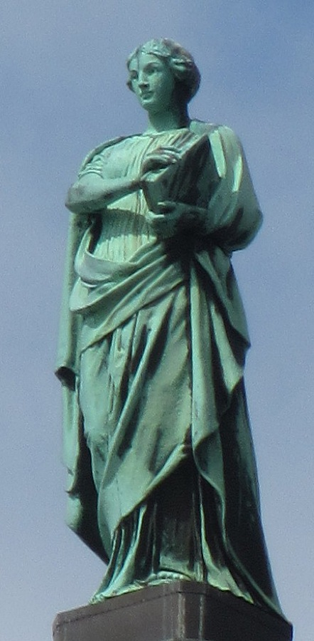 Halbig-Statue-Sapientia-Weisheit-Maximilianstrasse-Muenchen